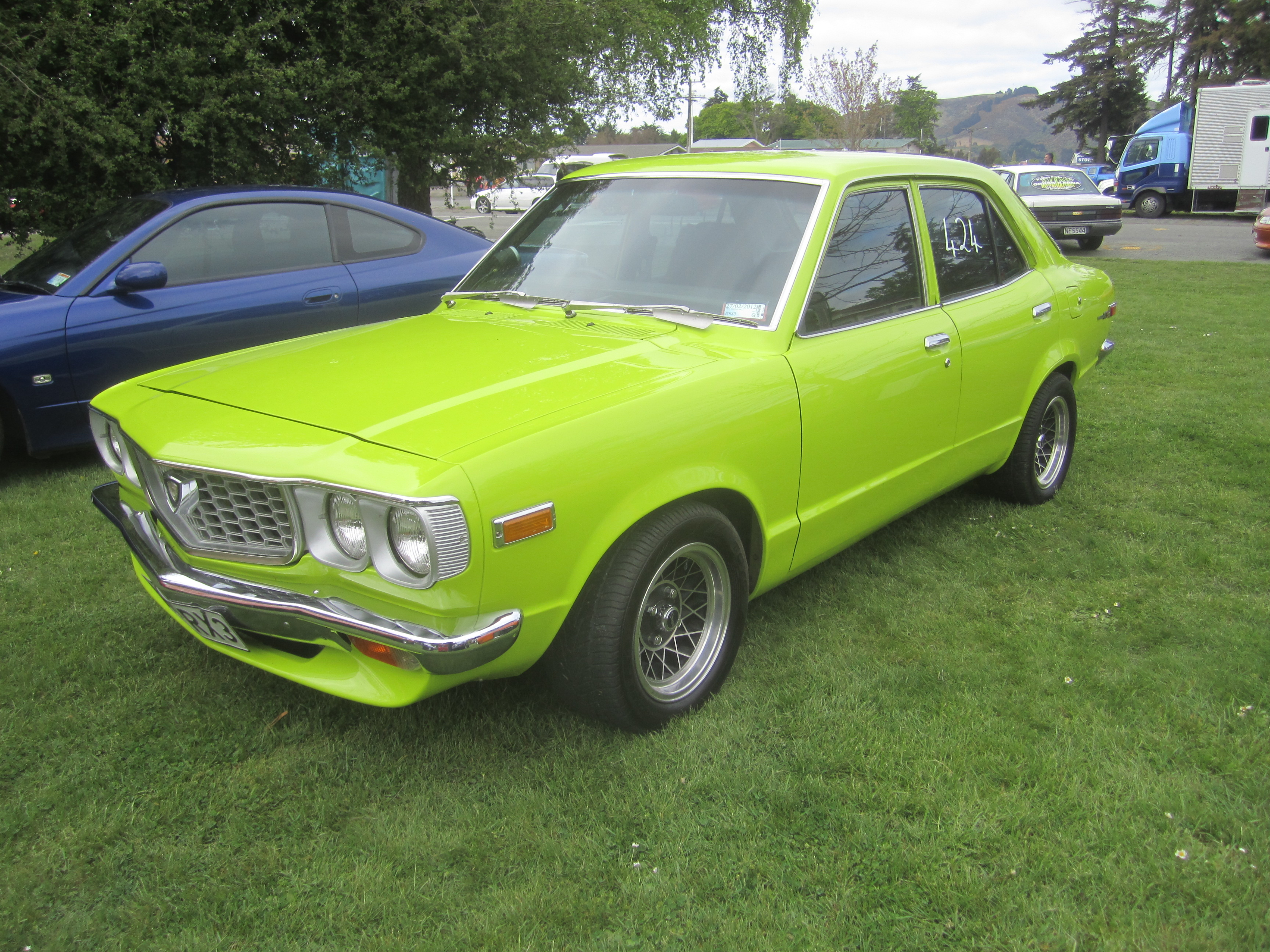 The RX3 was built from 1971-78, this a Series 1 runs a1146cc 12B Wankel Rotary Engine. Available in 2 or 4 door. Photographed at the 2011 Waimate 50 motoring event In NZ